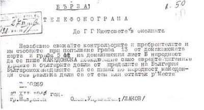 Note for ethnic census in Bulgaria in 1946 with order people in Pirin Macedonia to be counted as "macedonians", during the so called "Culture autonomy of Pirin Macedonia 1944-1948"